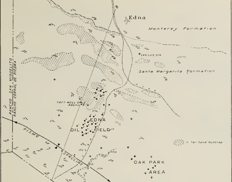 Edna Geologic Map